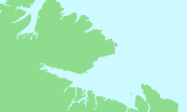 Locator map of Vardøya, Finnmark, Norway